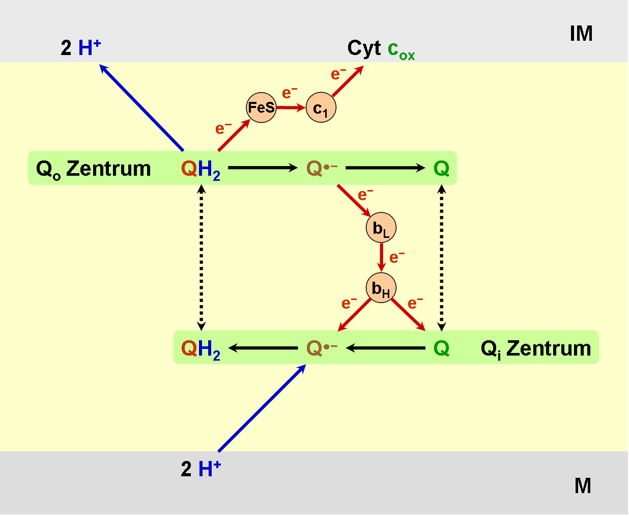 schematic representation of the Q-Cycle of Complex IV of the electron transport chain.